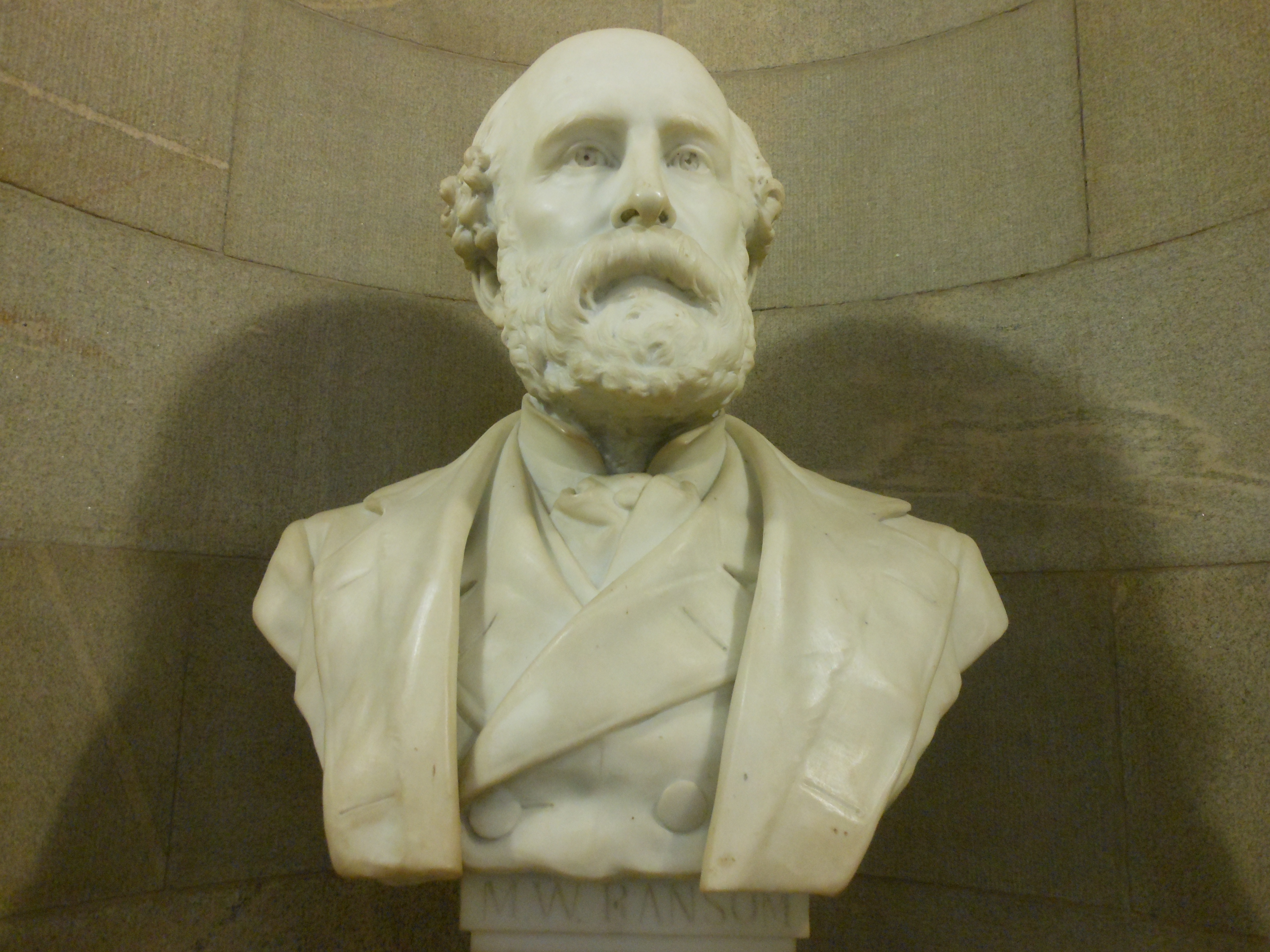 Matt Whitaker Ransom Bust Statue in Raleigh, NC.